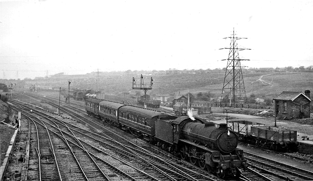 Up Local train from Leeds approaching Ardsley station. View NW, towards Leeds (Central) right, Bradford (Exchange) left, on the main ex-Great Northern line from Doncaster and Wakefield, Ardsley Station (closed 2/11/64) being behind the camera. (The scene would be impossible now, because the M62 crosses exactly at this point). The Leeds - Doncaster stopping train is headed by LNE B1 4-6-0 No. 61339.